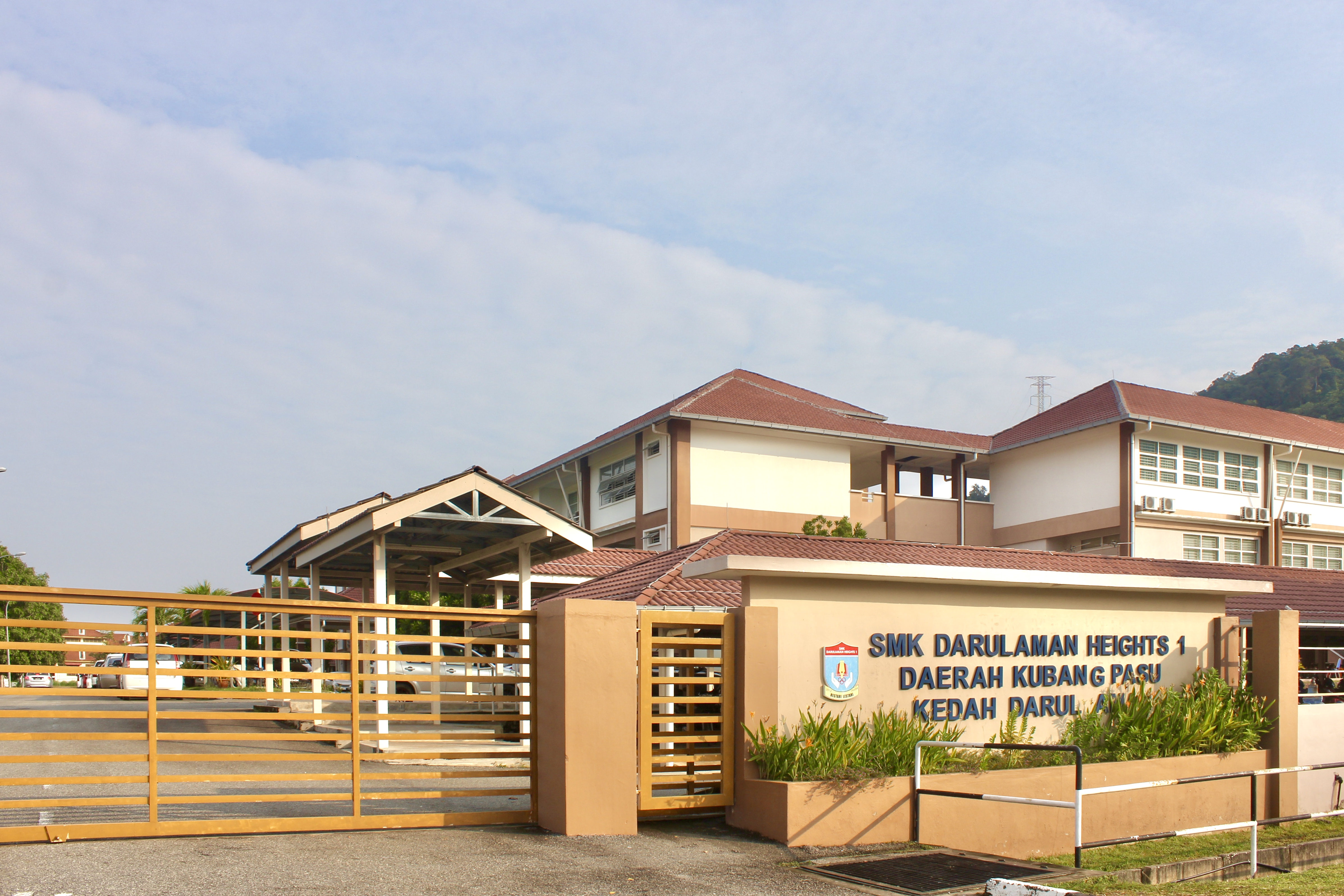 Sekolah Menengah Kebangsaan Darulaman Heights 1